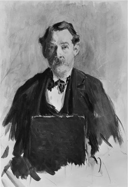 Denman Ross self-portrait